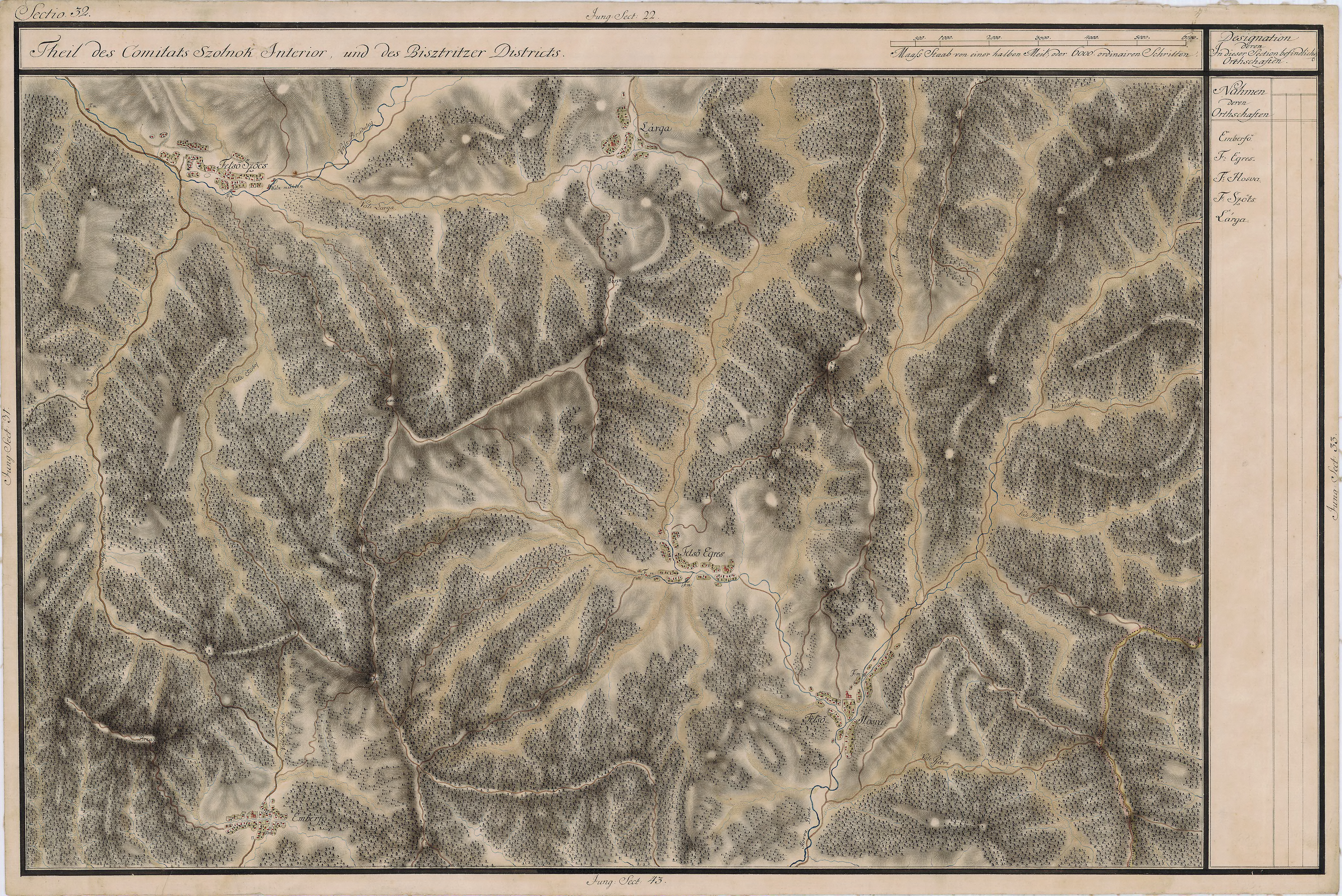 Grand Duchy of Transylvania, 1769-1773. Josephinische Landaufnahme pg.032